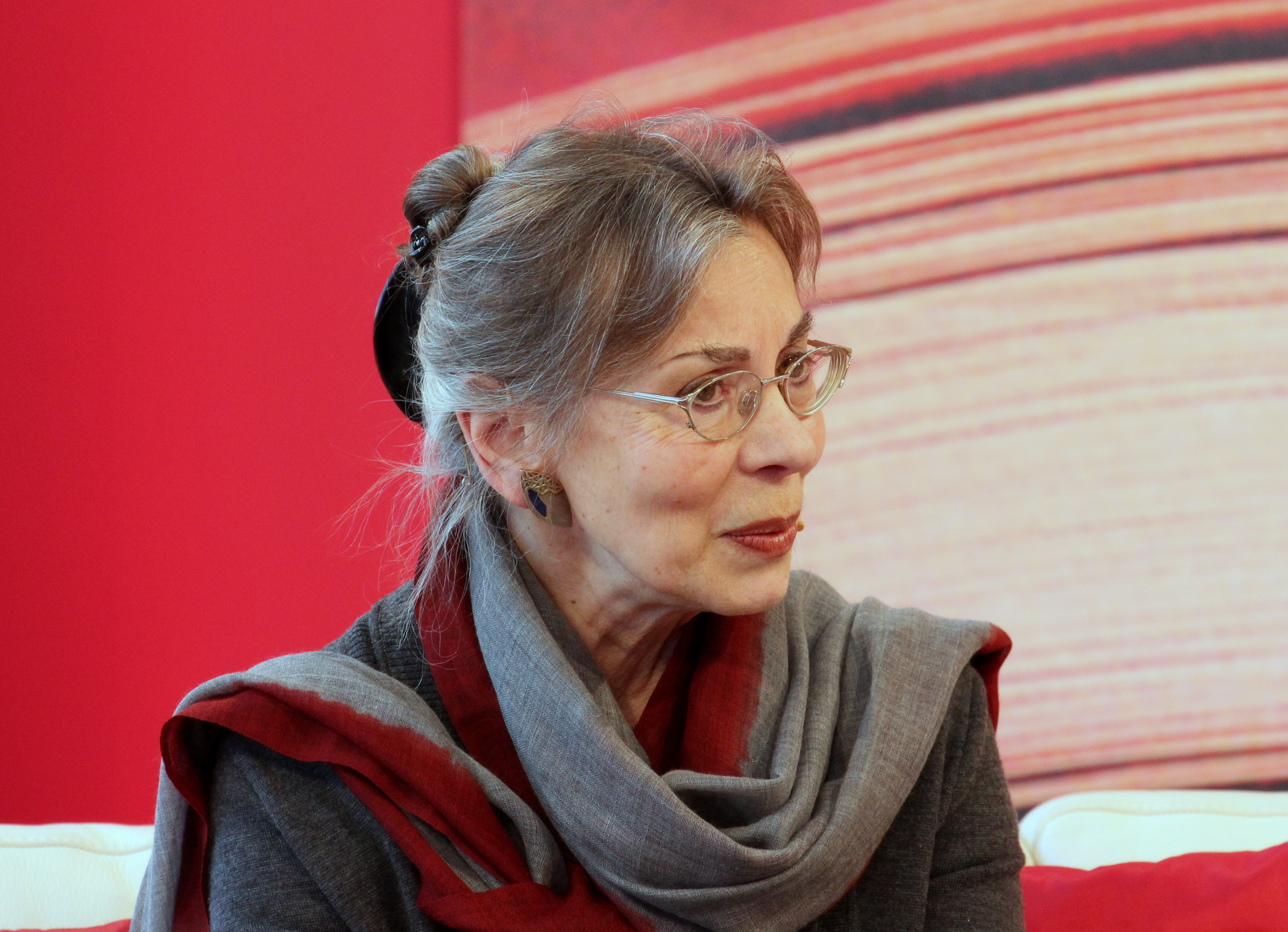 Anna Mitgutsch at Leipzig Book Fair 2016